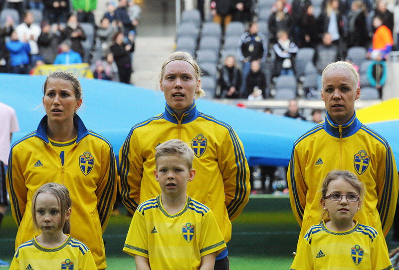 Players of the Swedish women’s national football team together with their players escort at the friendly match against Denmark on 8. April 2015.